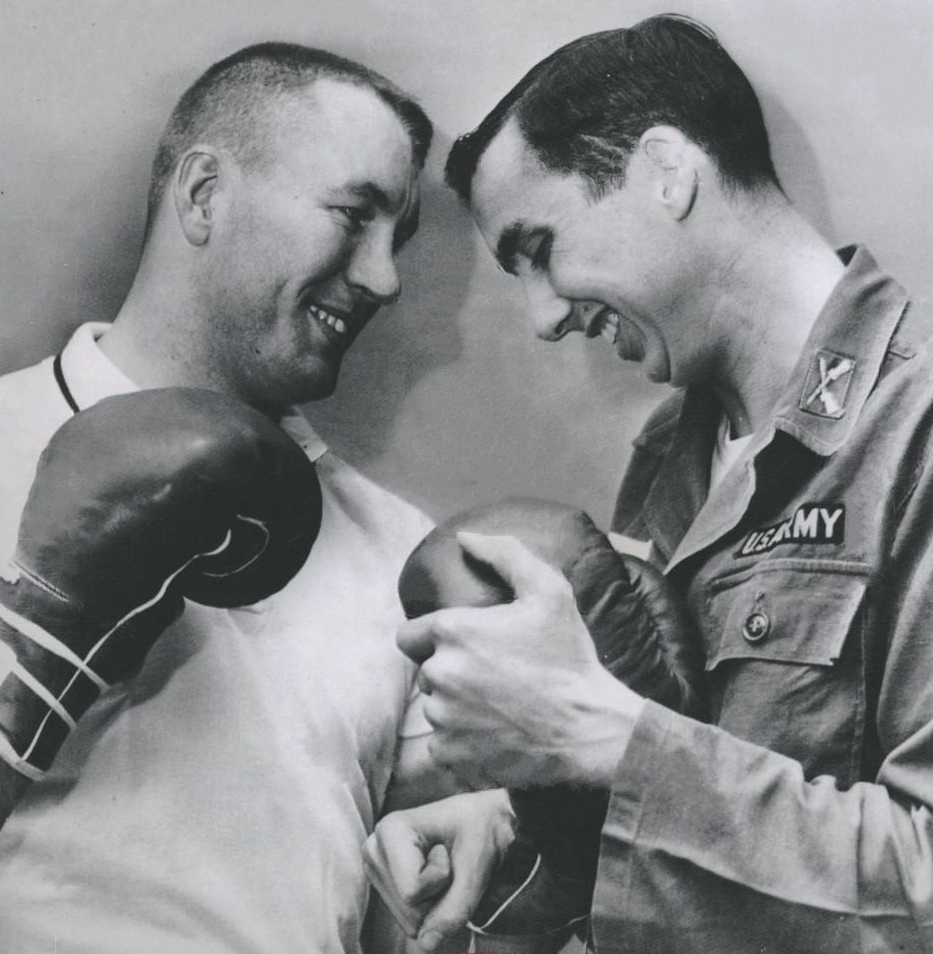 Bill Nieder and Don Bowden